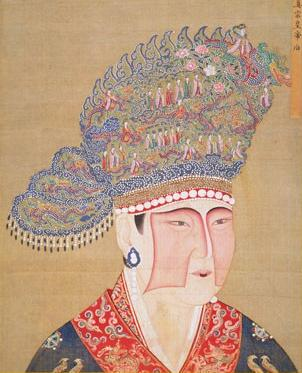 The Official Imperial Portrait of Song Dynasty's Empress